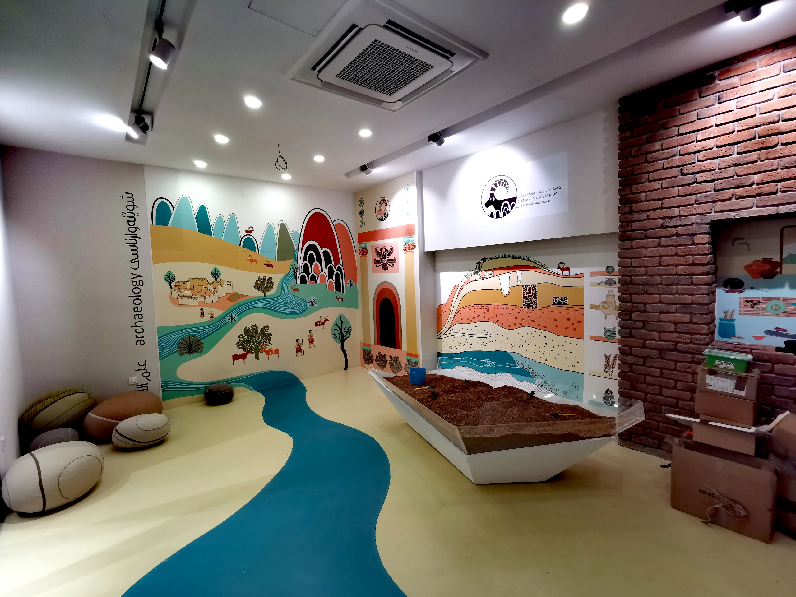 The final preparations just before opening the new museum for children at the Sulaymaniyah Museum, "The Slemani Museum Kids". The Kids was opened on September 5, 2019.